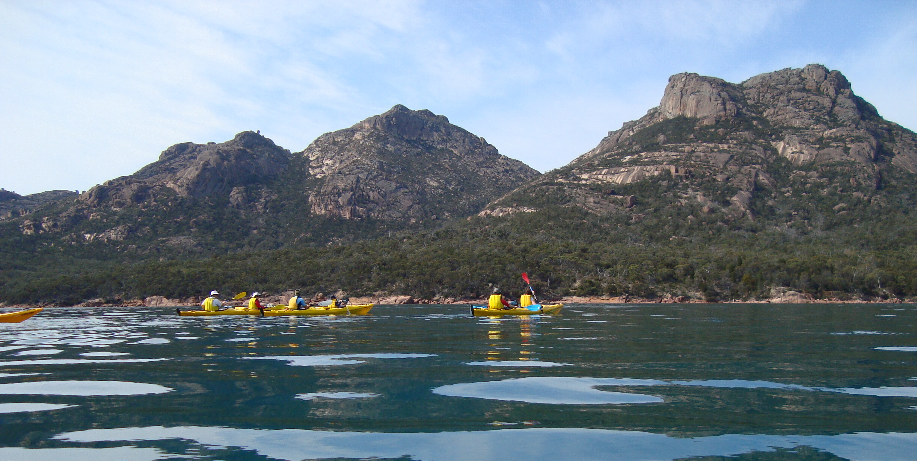 Sea kayaking is a tourist activity based in Coles Bay. Expeditions cater to both novices and experienced kayakers to enjoy the beauty of Oyster Bay, The Hazards and Freycinet National Park.